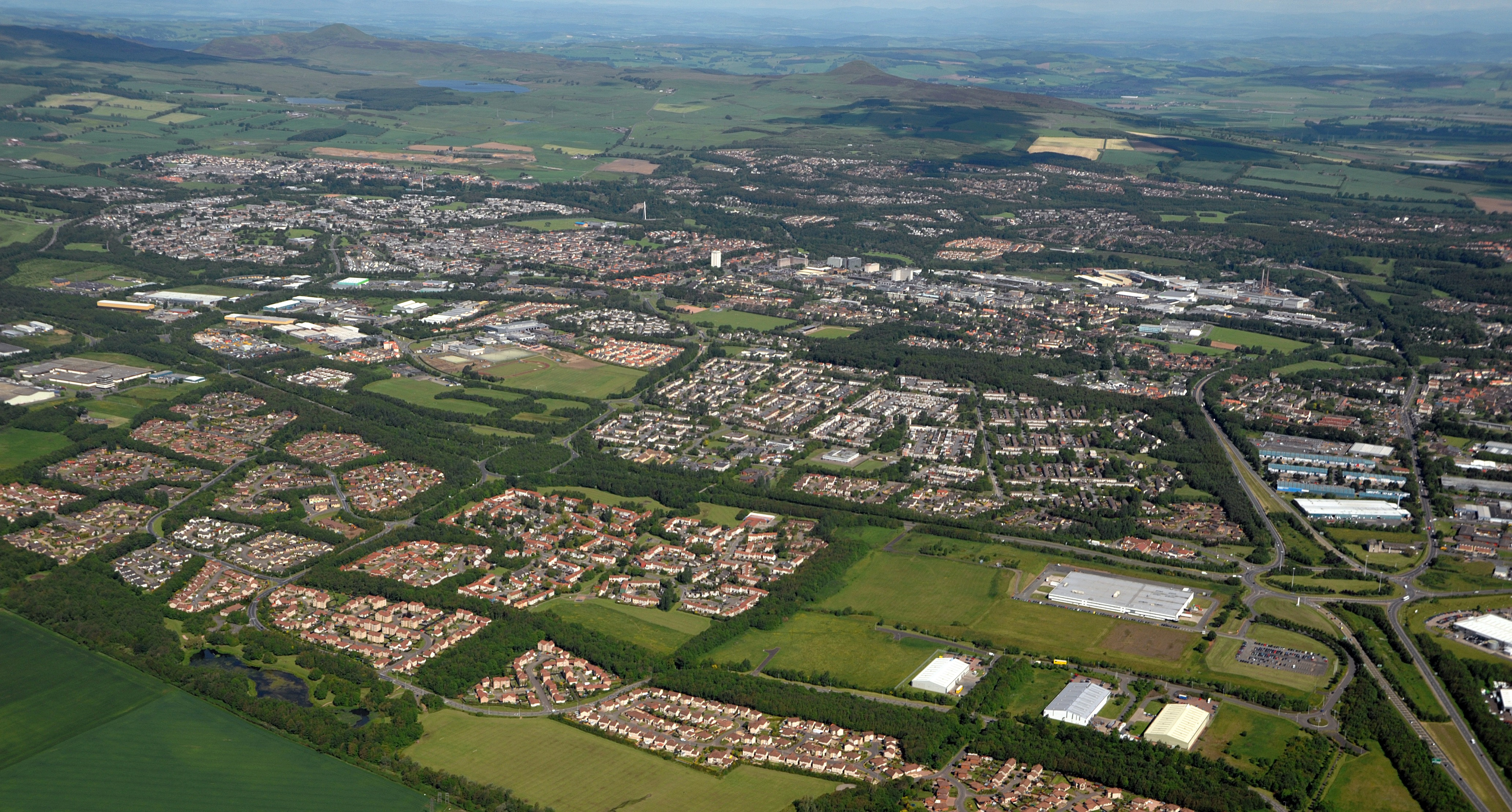 An image I took whilst out on a flying lesson from the nearby airport. View of Glenrothes on a clear sunny day taken from the south-eastern edge of the town looking north towards the Lomond Hills.